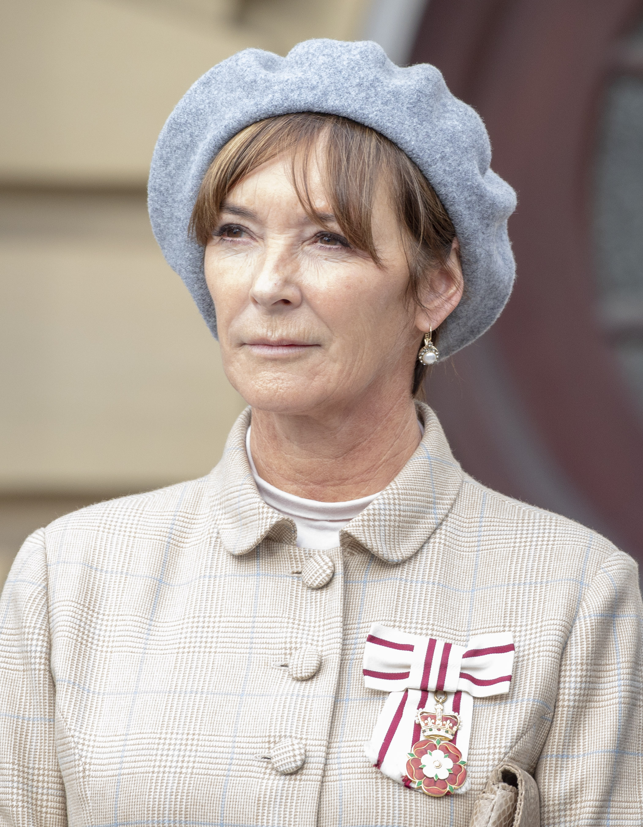 The Duchess of Northumberland, Jane Percy, officiating at a Battle of Britain parade in Alnwick on 16 September 2018